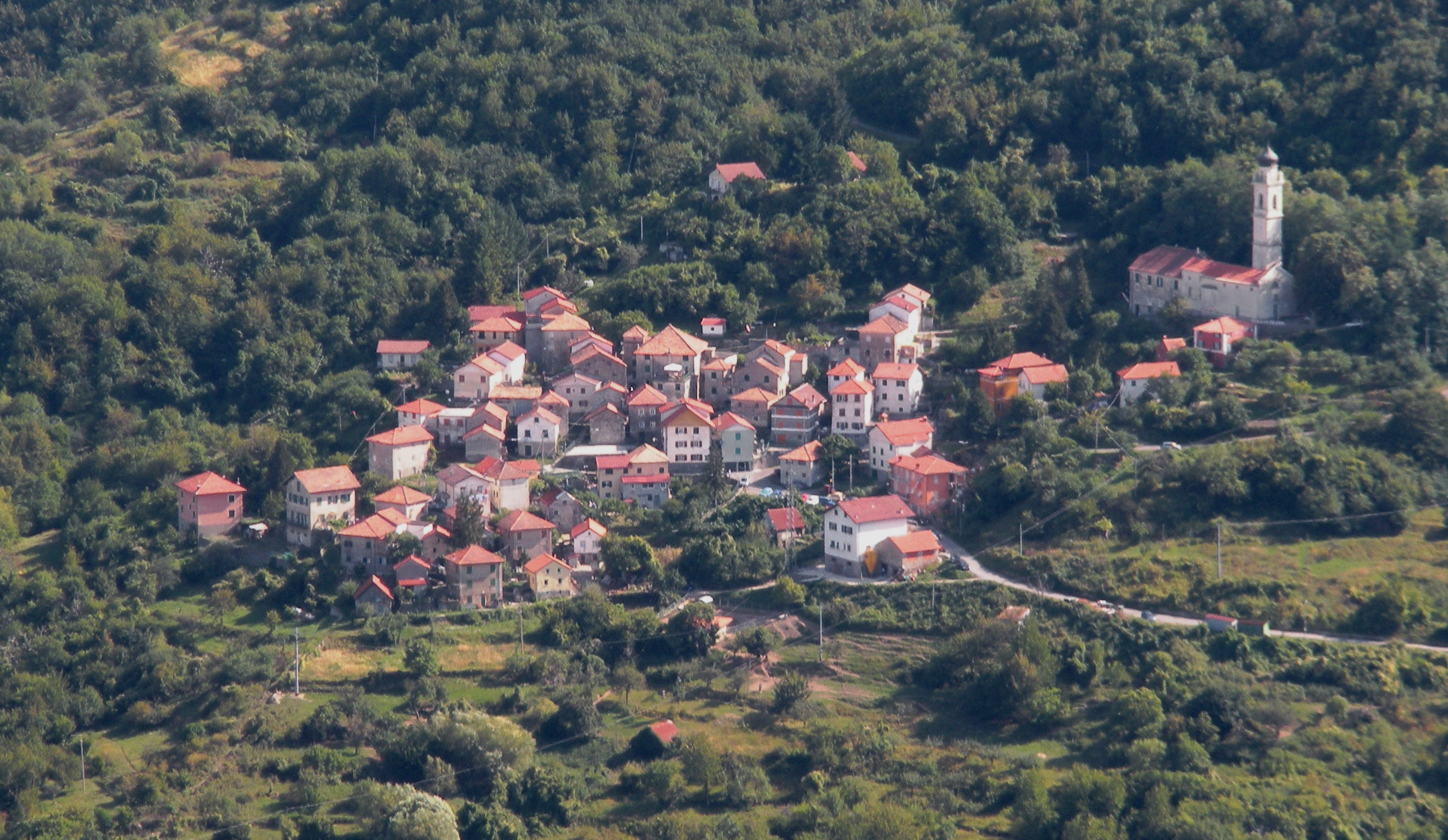 View of the village of Frassinello (Valbrevenna, province of Genoa, Italy)